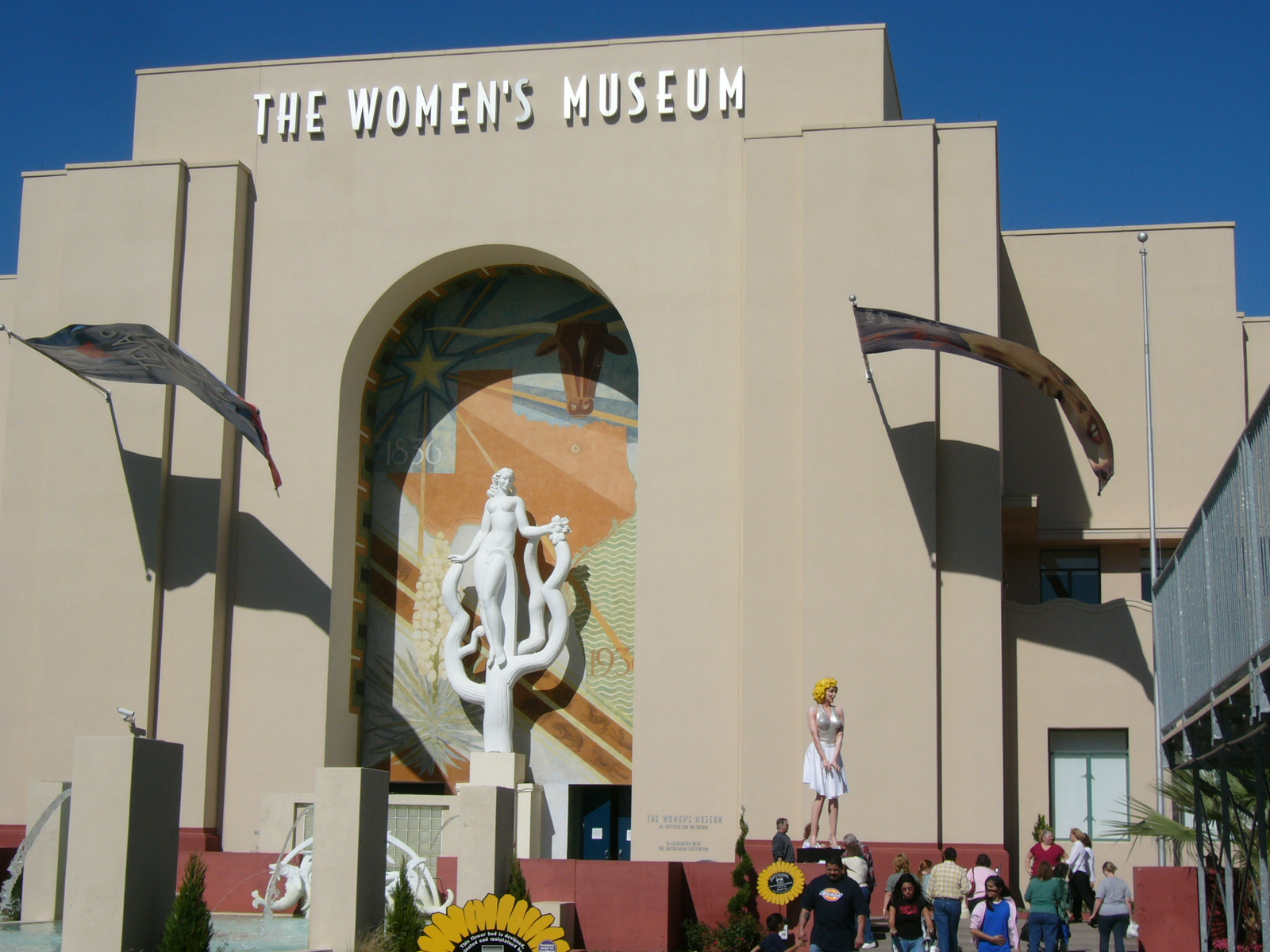 For some reason they thought showing a gallery of Marilyn Monroe photos at the women's museum would be appropriate. I guess in the same way that they thought an exhbition of card-stacking by a white guy would be appropriate in the African-American Museum.